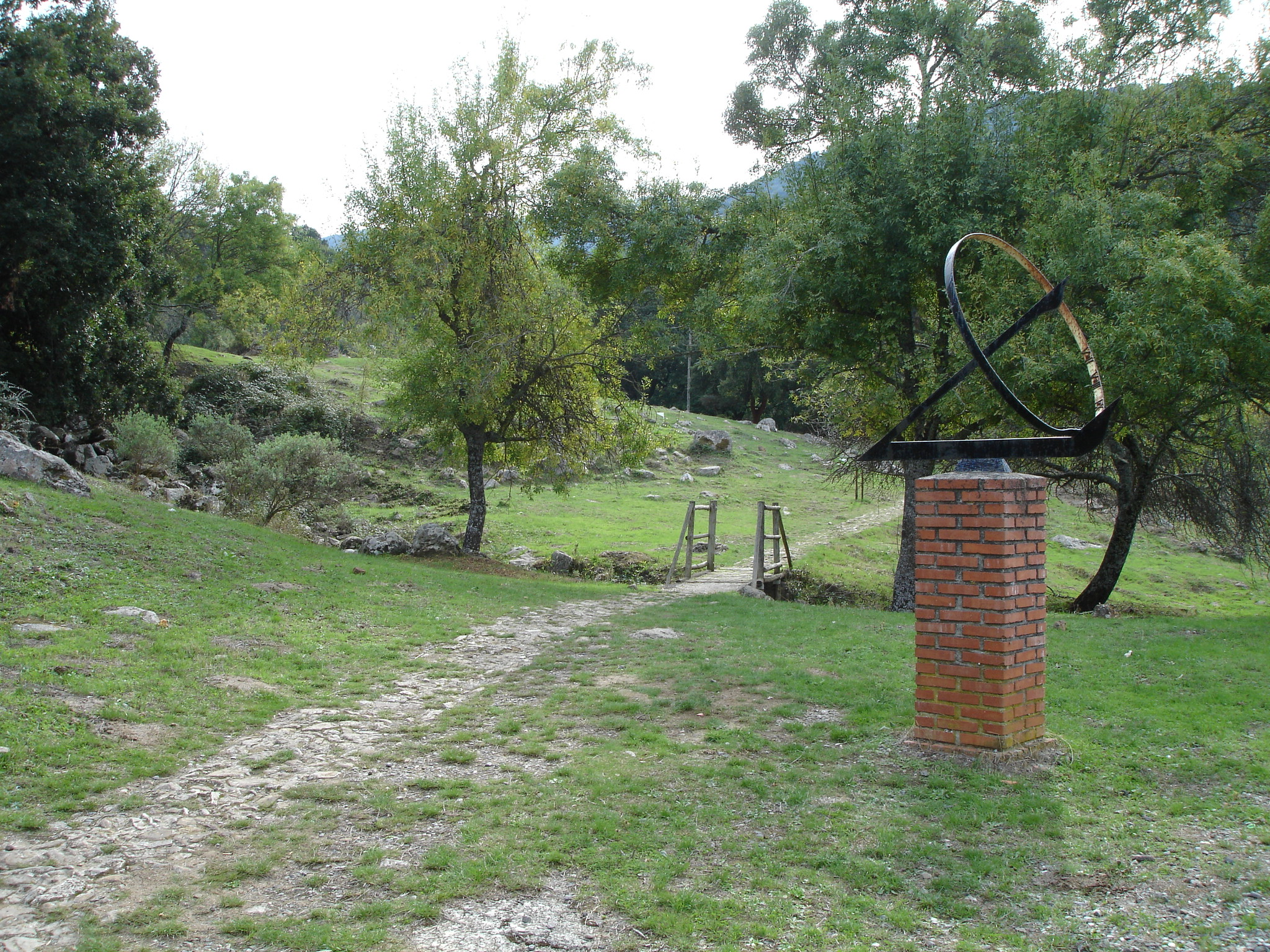 La Sauceda (Cortes de la Frontera, Andalusia). Los Alcornocales Natural Park (Spain)